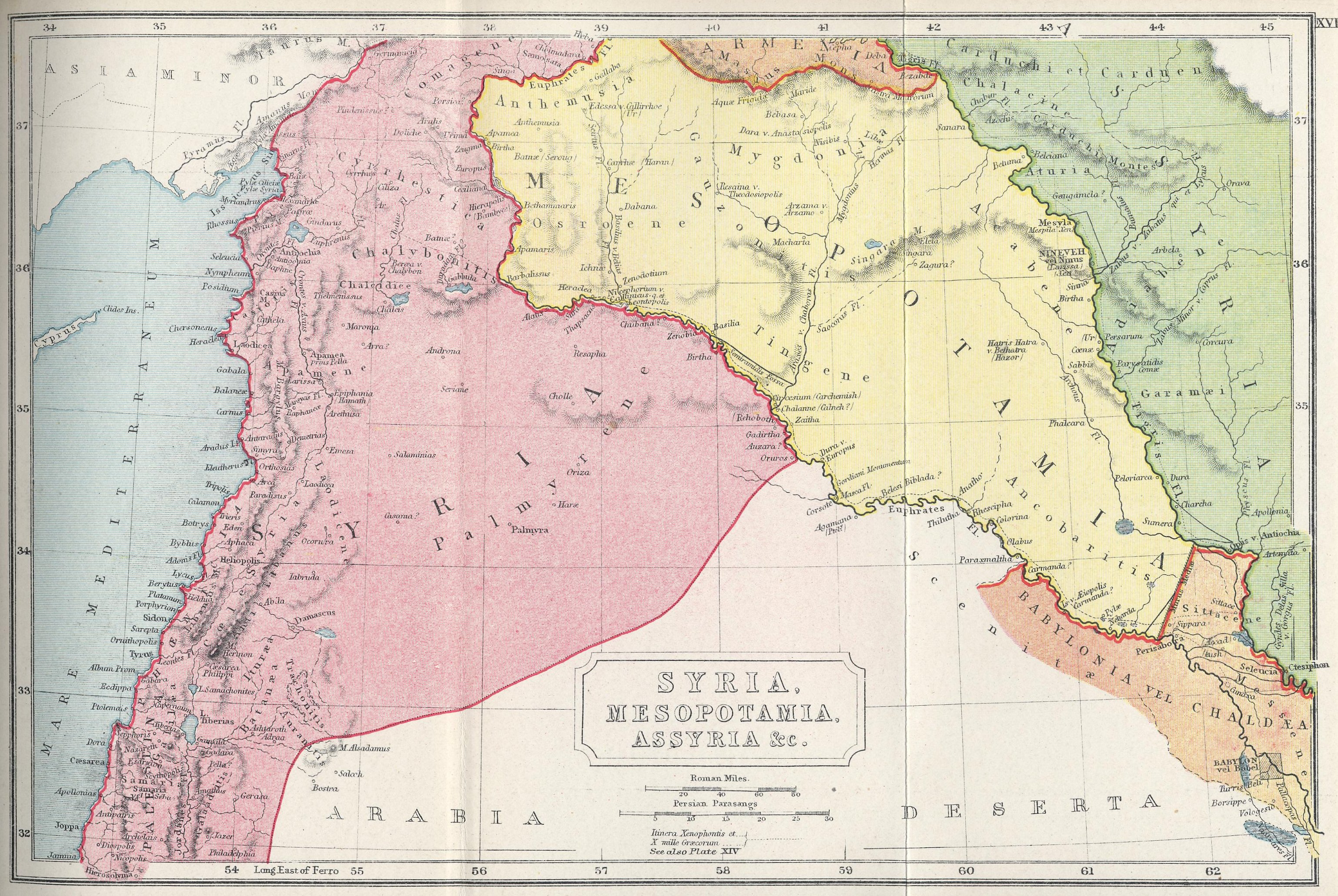 The Atlas of Ancient and Classical Geography by Samuel Butler